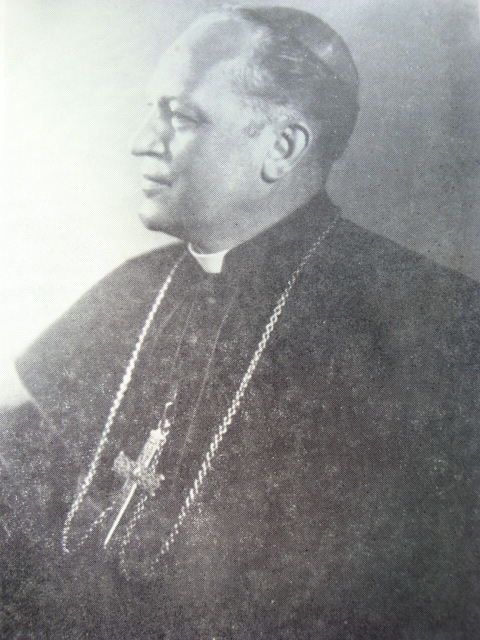 Primate of the Polish Catholic Church in Poland - Maksymilian Rode